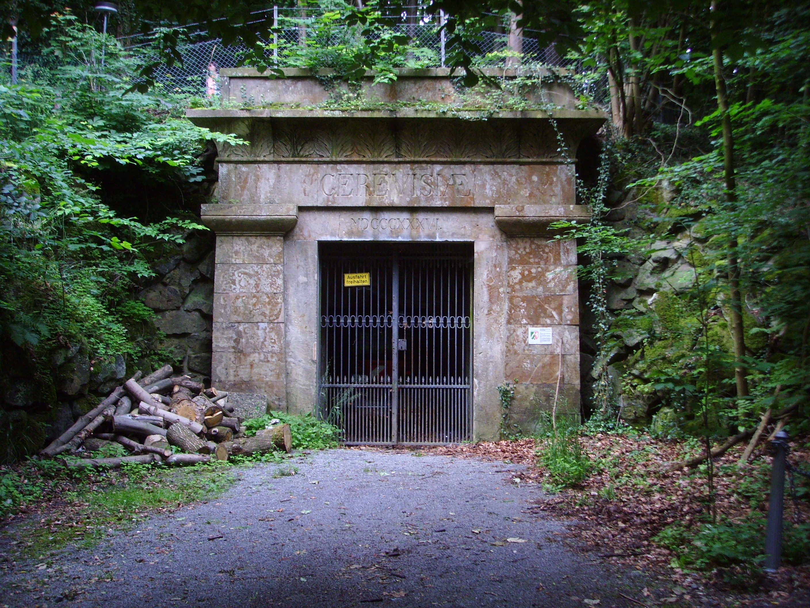 This is a photograph of an architectural monument.